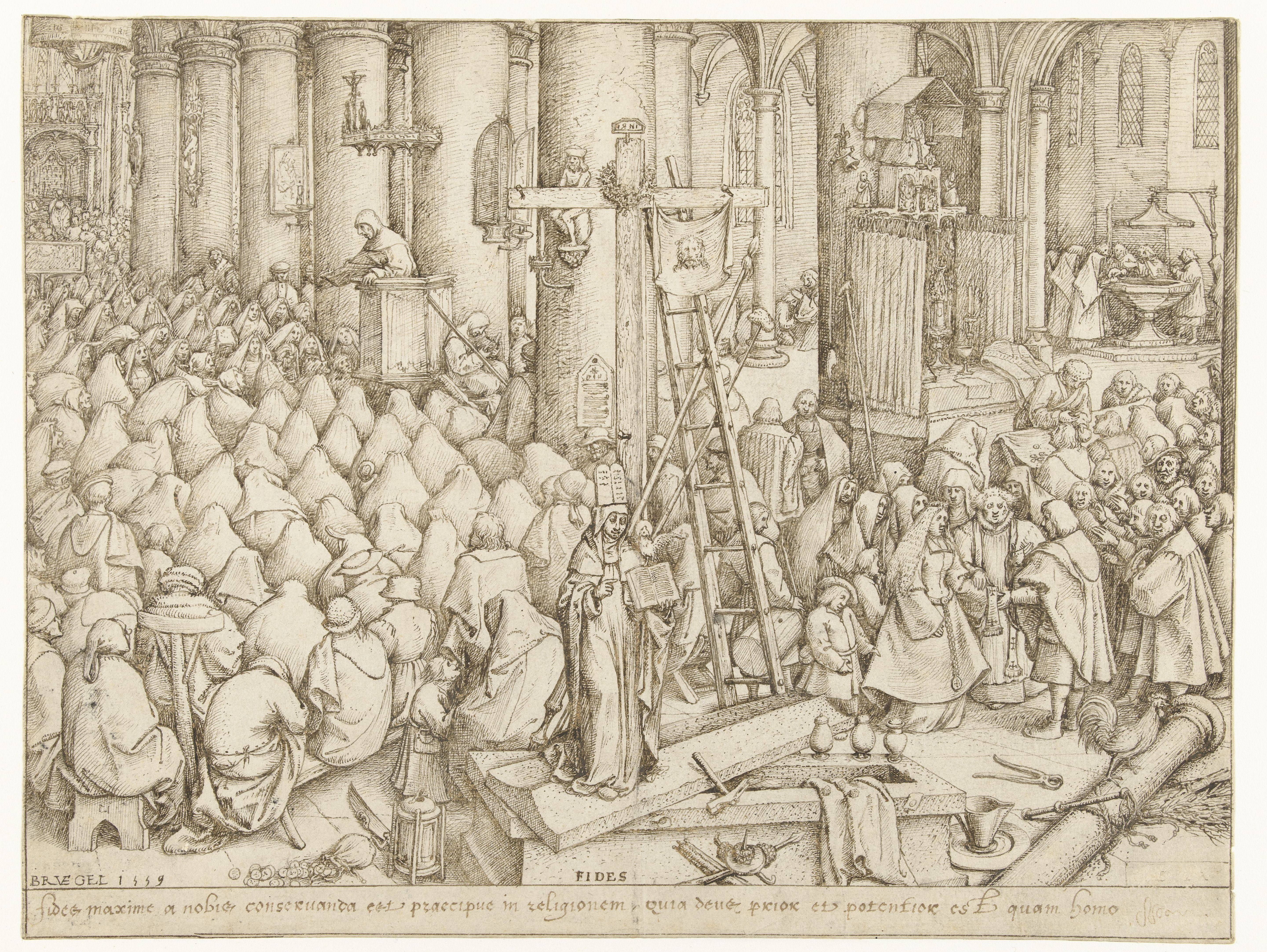 Faith, by Pieter Bruegel the Elder. Project for a print published by Hieronymus Cock and engraved by Philips Galle